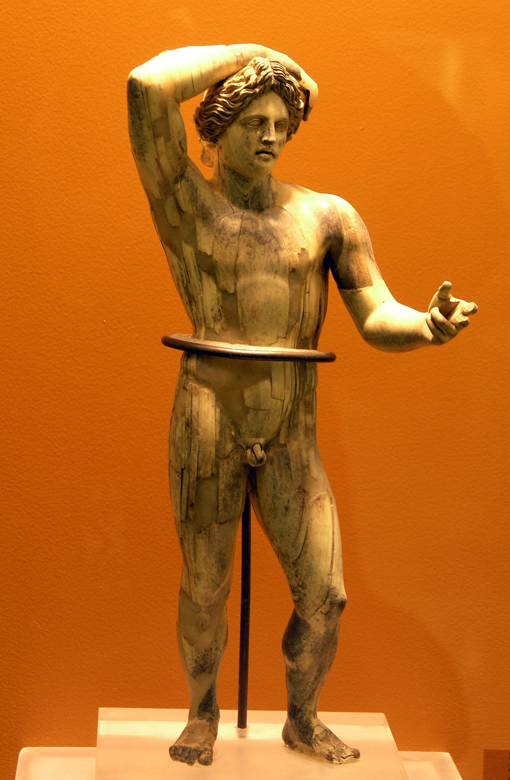 Lycian Apollo. Ivory statuette reconstituted from 200 fragments found in a well, 3rd century CE. Probably a copy from the Lycian Apollo by Praxiteles which stood in Aristotle's Lycaeum. The god used to hold a bow in his left hand.